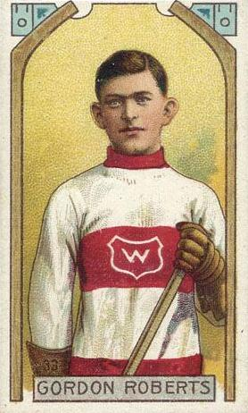 C55 Gordon Roberts hockey card